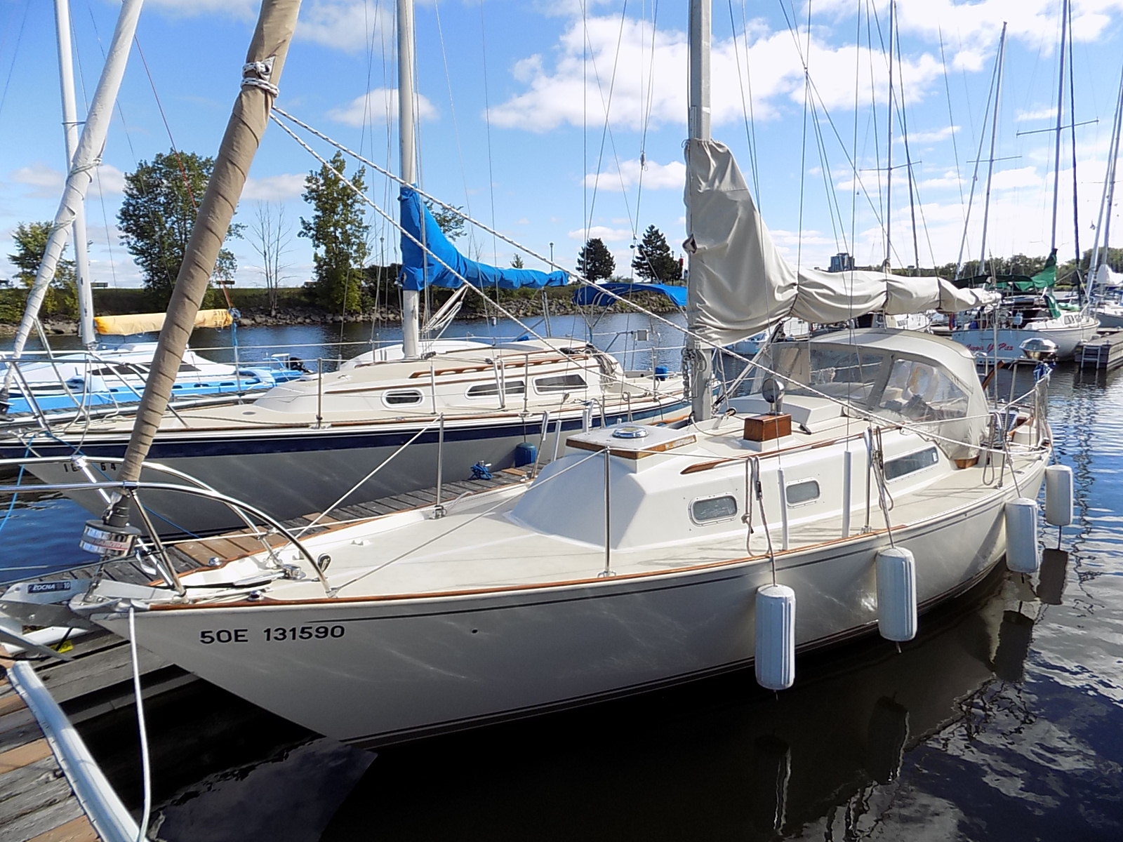 A Redwing 30 sailboat named Ayrborn.